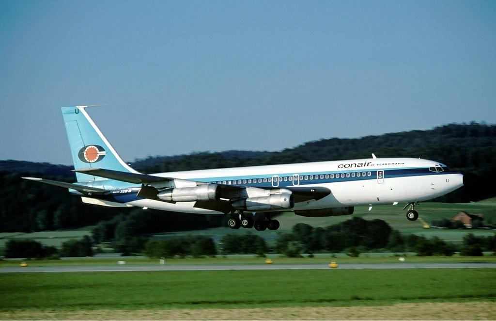 Conair Boeing 720-051B